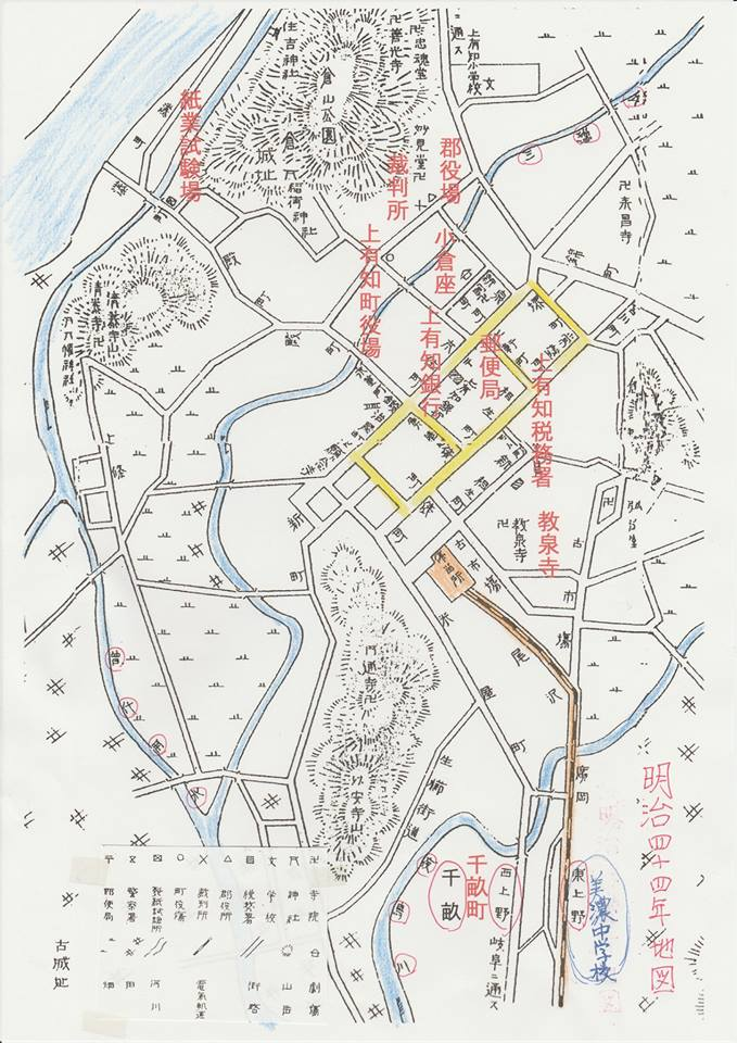 Map of Koduchi-cho, Mugi-gun ,Gifu Prefecture in 1911